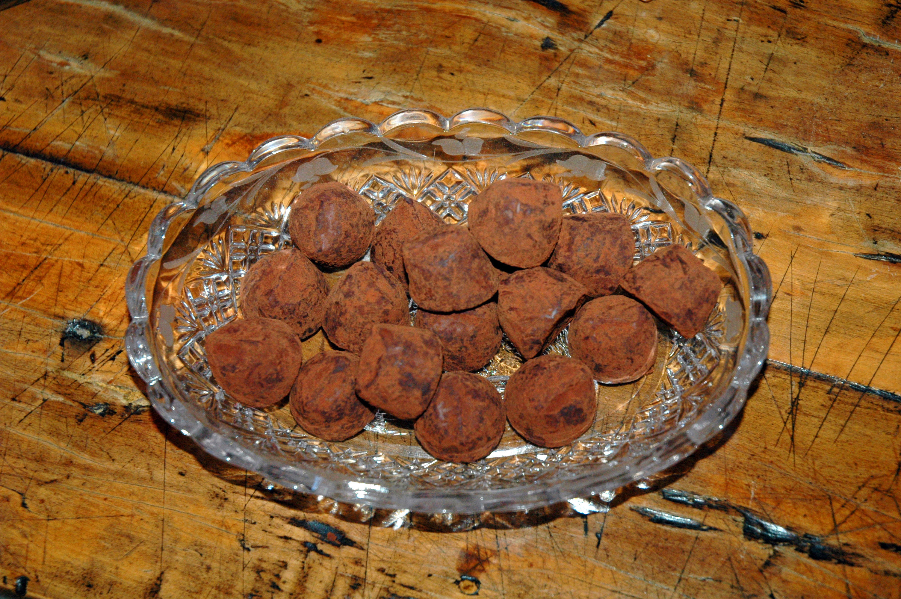 A bowl of chocolate truffles.